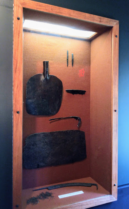 Iron products recovered at the Jenckes archeological site at Saugus Iron Works in Massachusetts